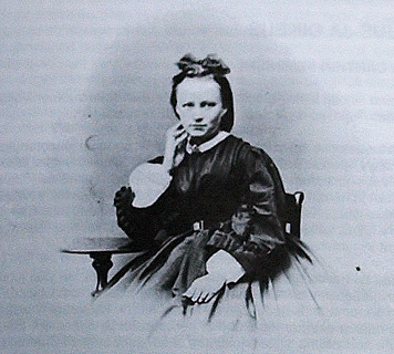 Finnish author Minna Canth (1844-1897) in her youth (age 13-16)